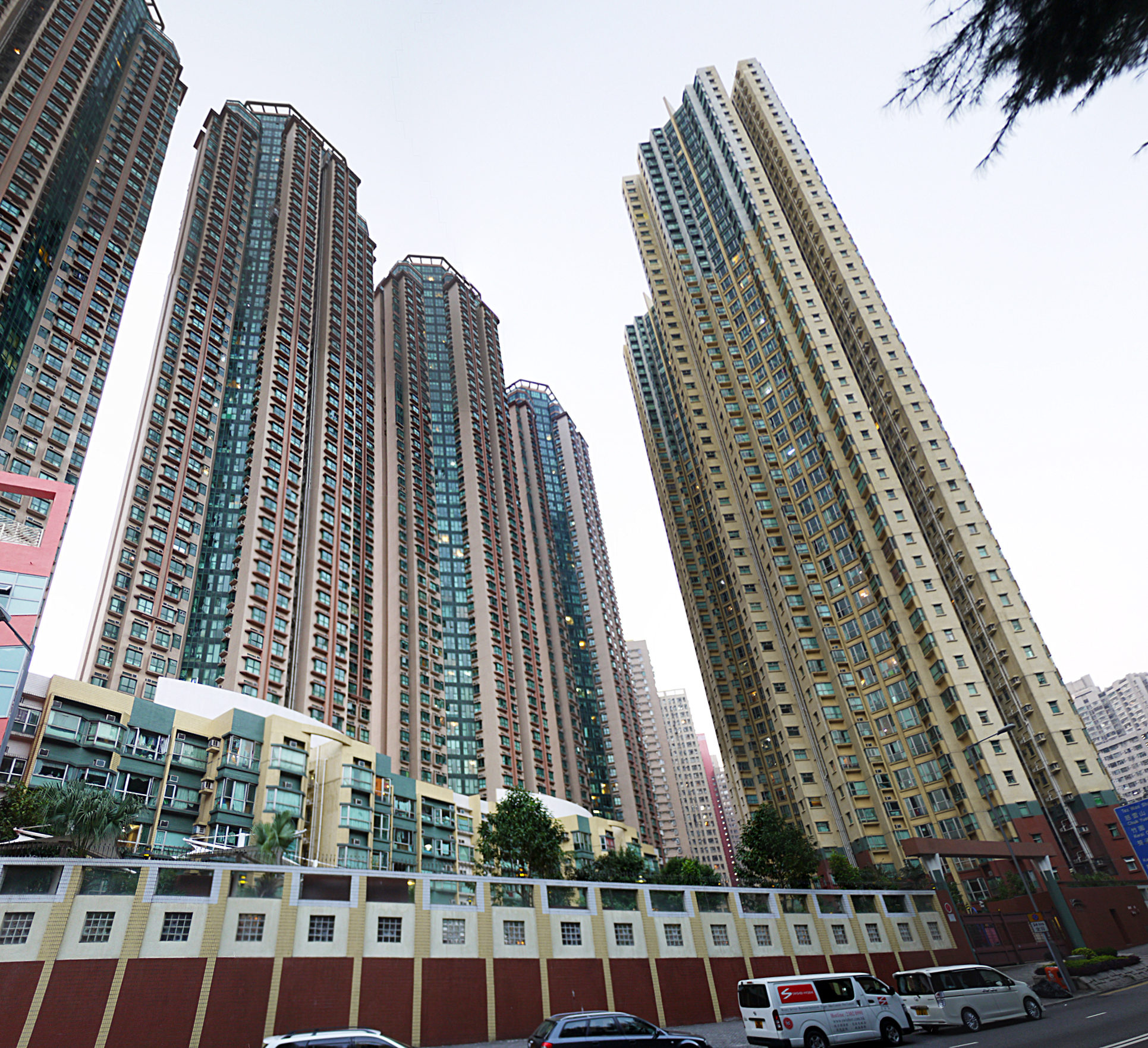 Bel air